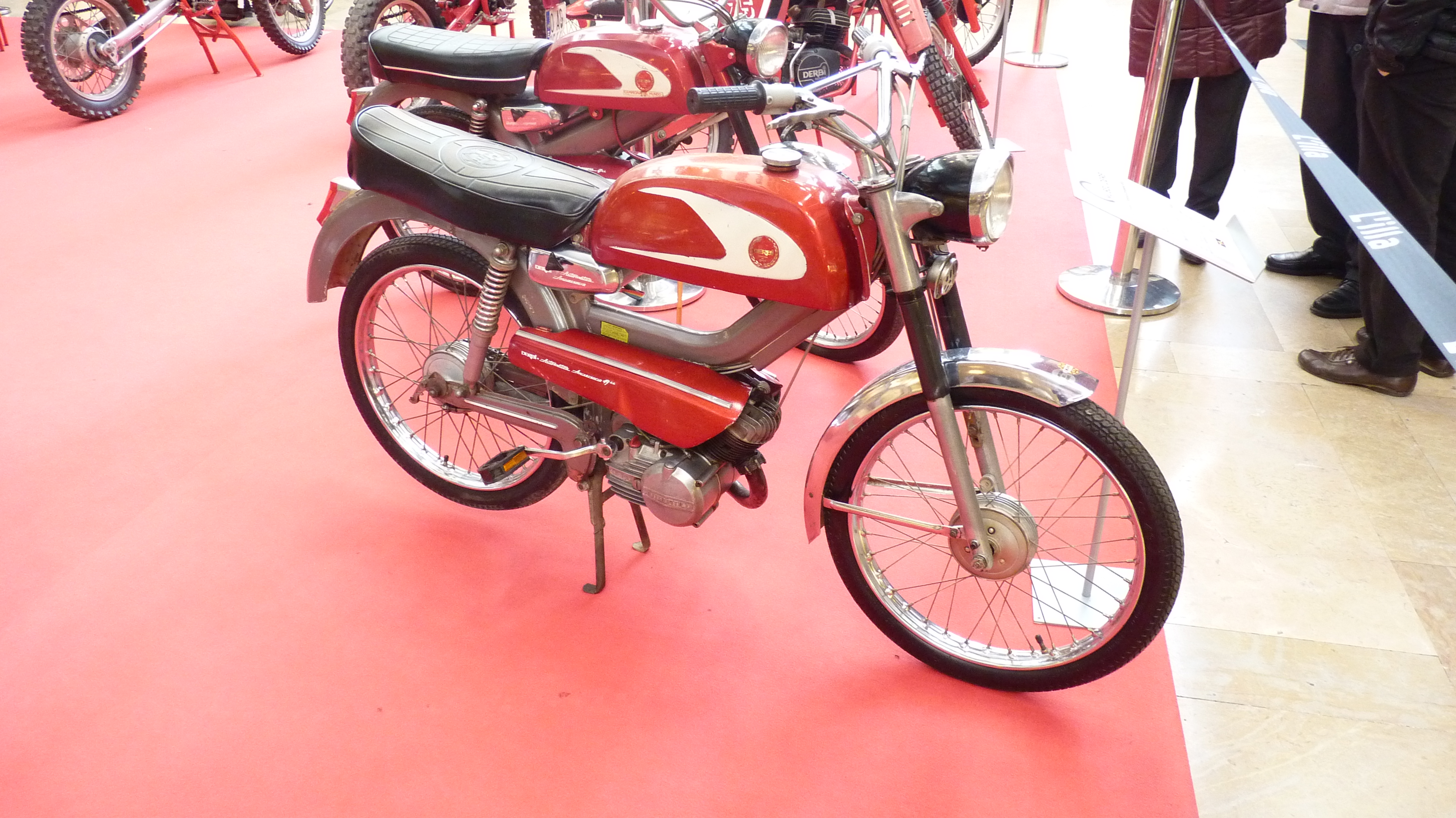 Derbi Antorcha Automática 49cc by 1967